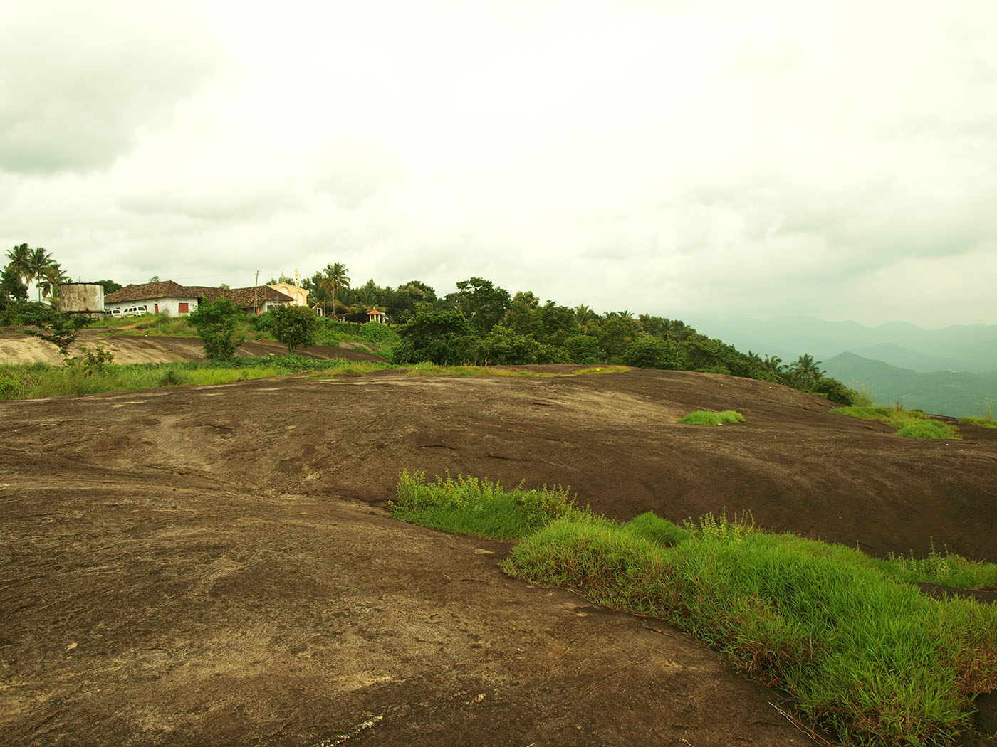 A tourism destination point in Kottayam Dist. Kerala, India